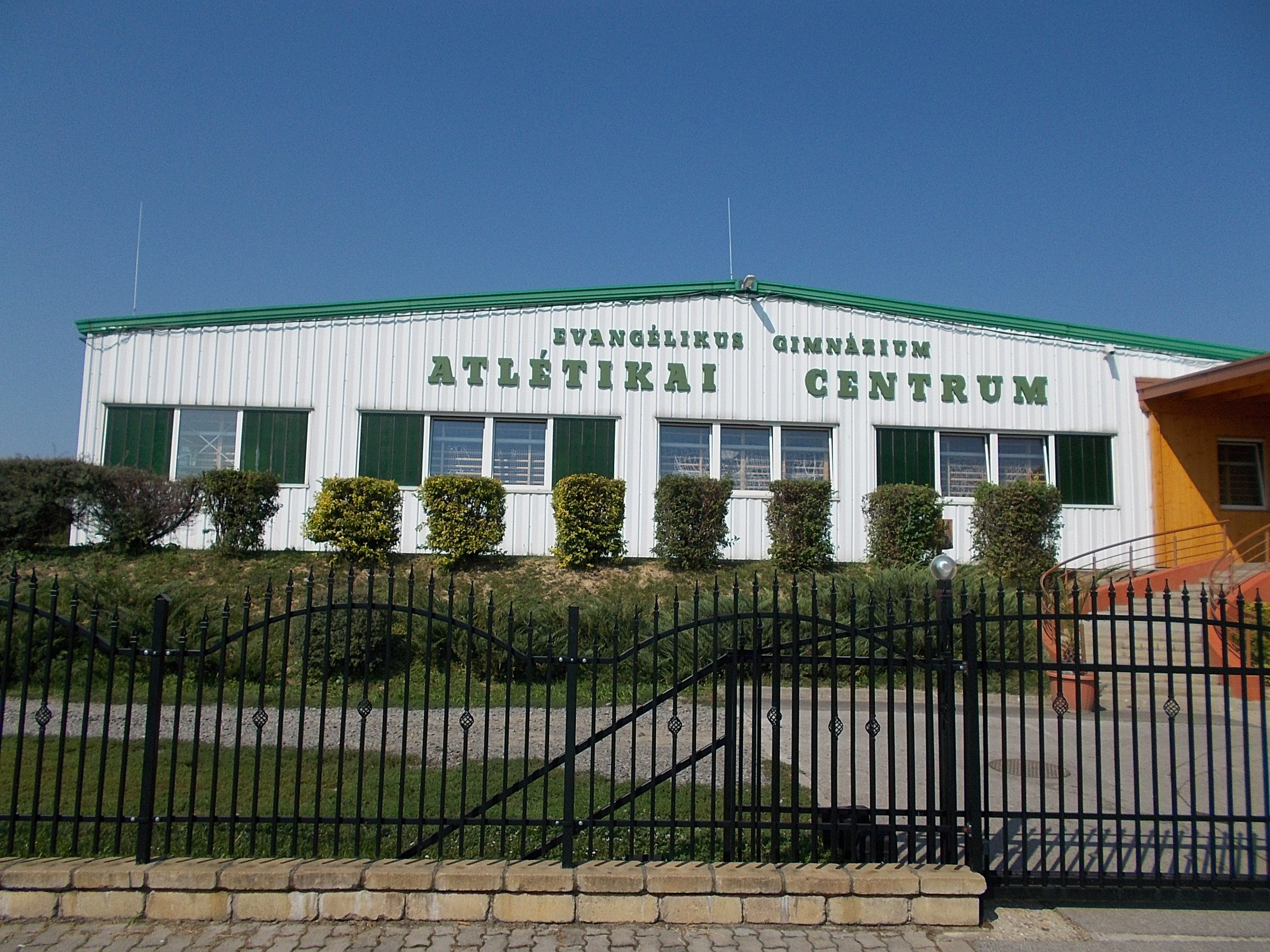 Lutheran High School Athletics Centre - 2 Bajcsy-Zsilinszky Street, Bonyhád, Tolna County, Hungary.